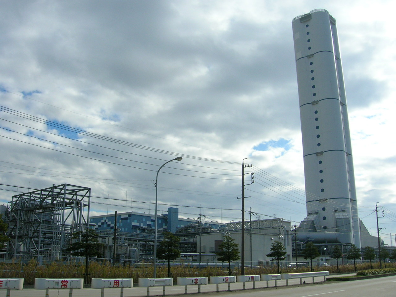 Shin nagoya karyoku hatsudensyo (Shin Nagoya Thermal Power Plant, No.7 - Use Liquefied natural gas.) Loc: Minato ward, Nagoya city, Aichi Prefecture, Japan 新名古屋火力発電所 - 7号系列プラント建屋。 撮影場所 愛知県名古屋市港区